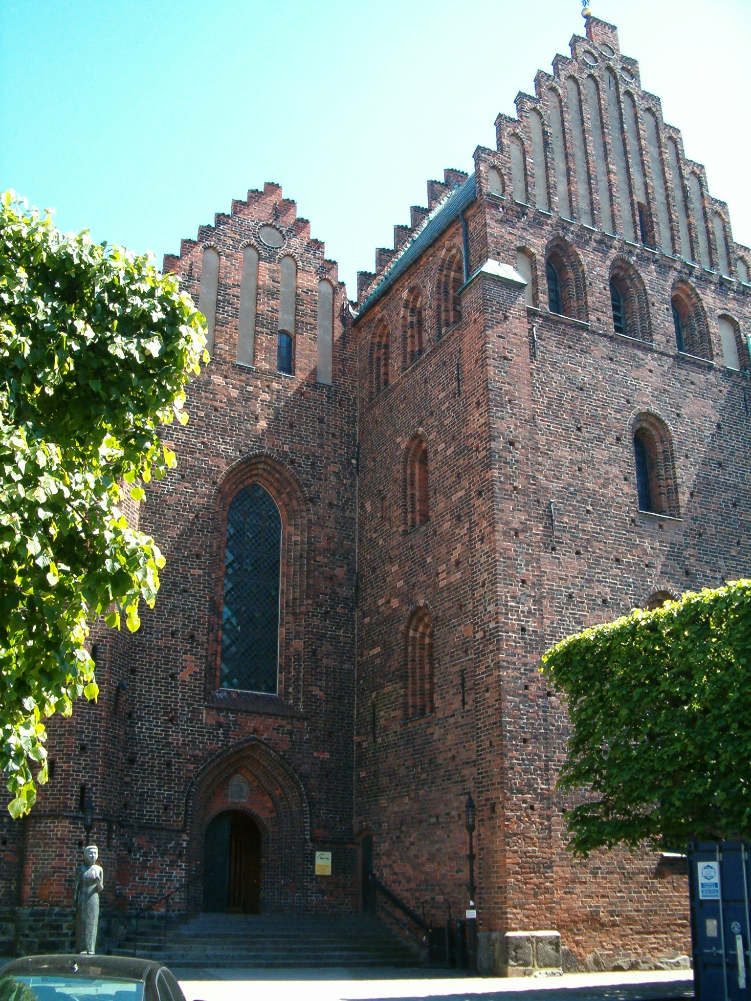 Church of Saint Mary in Helsingborg, Sweden.